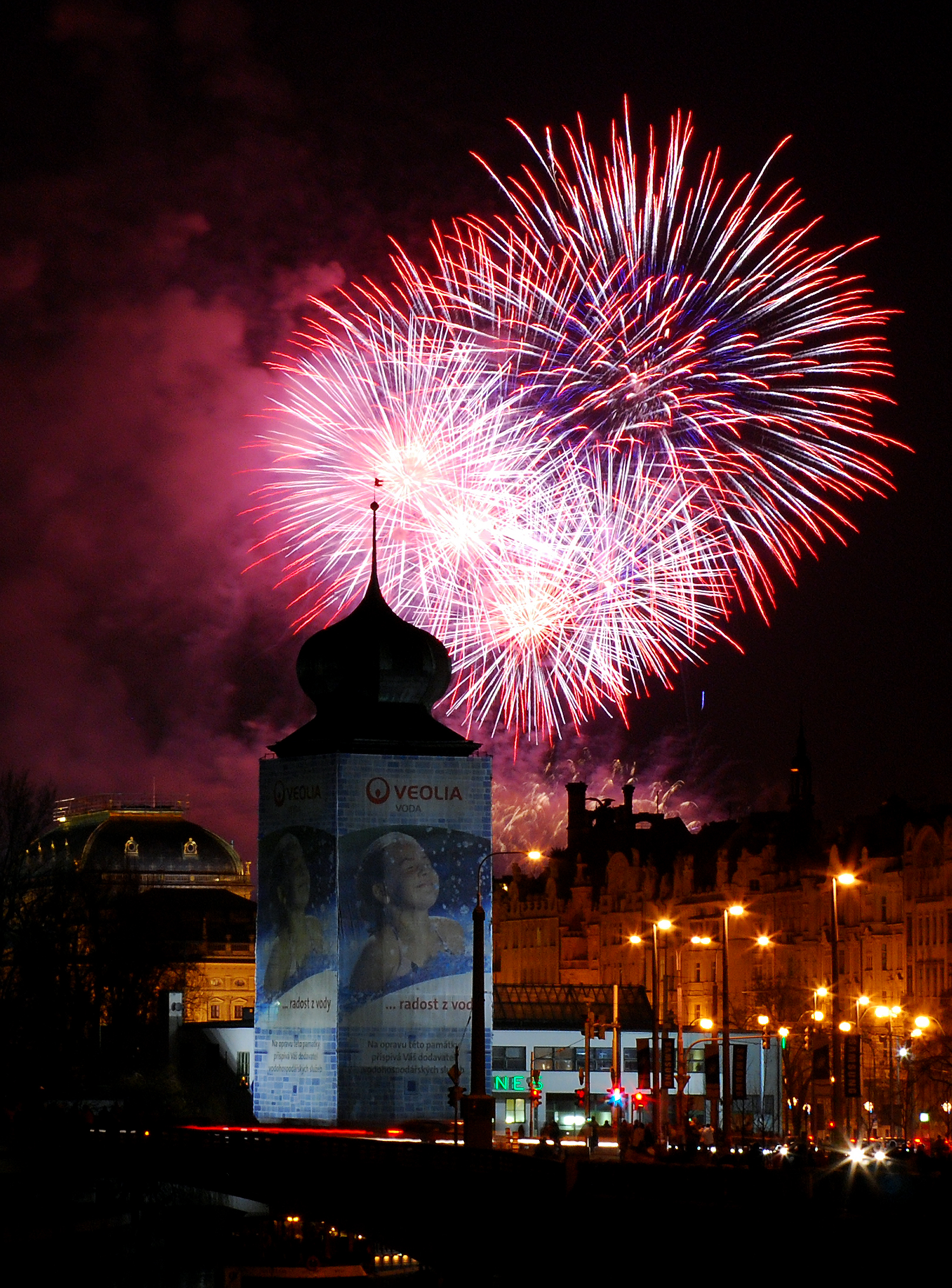 Picture of 2008 New Years firework in Prague. Picture is taken from Palacky's bridge (Palackého most). On the picture you could see gallery Manes and roof of Czech National Theater.